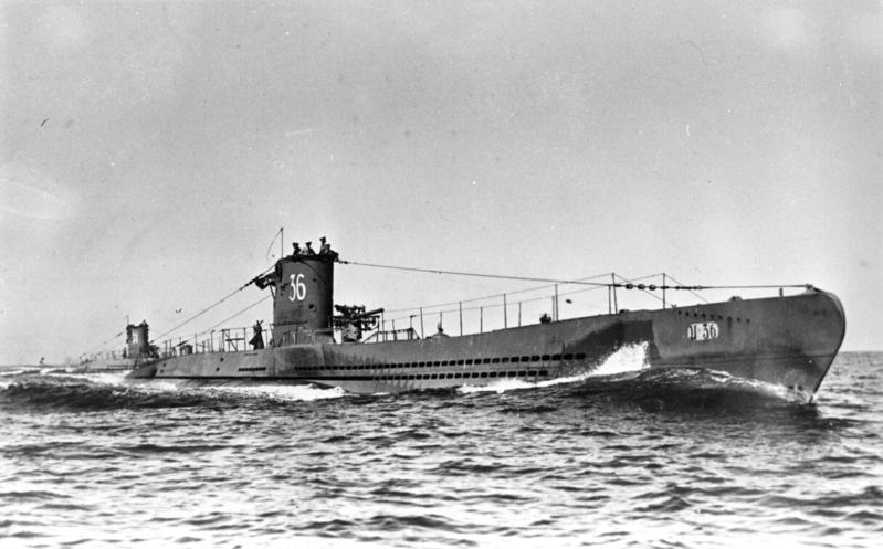 German type VII A submarine U 36